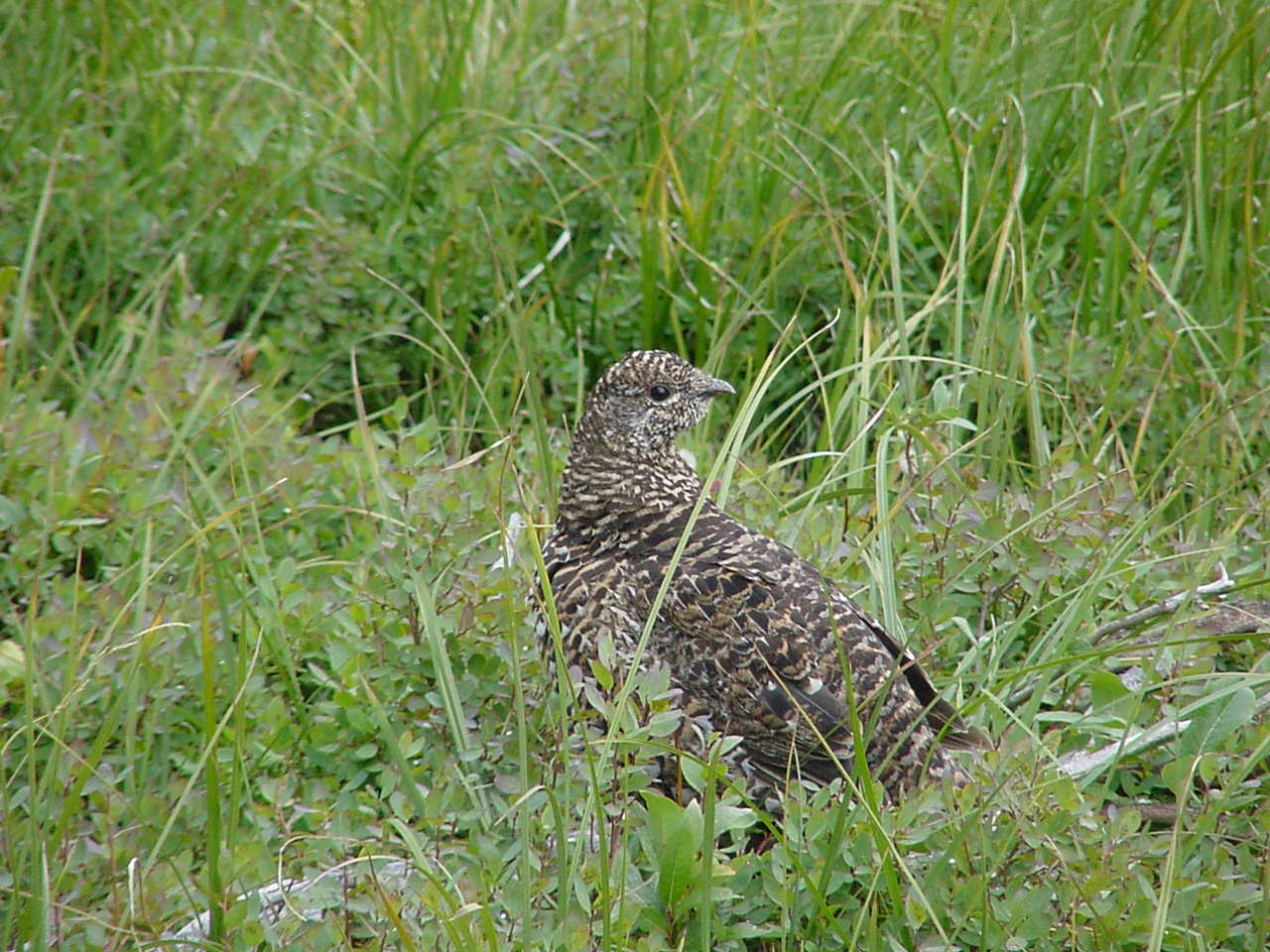 A ruffed grouse (Bonasa umbellus) in Boise National Forest, Idaho.